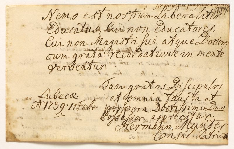 Inscription of mayor Hermann Münter in Album amicorum of Johann Friedrich Behrendt, 1739 February 11